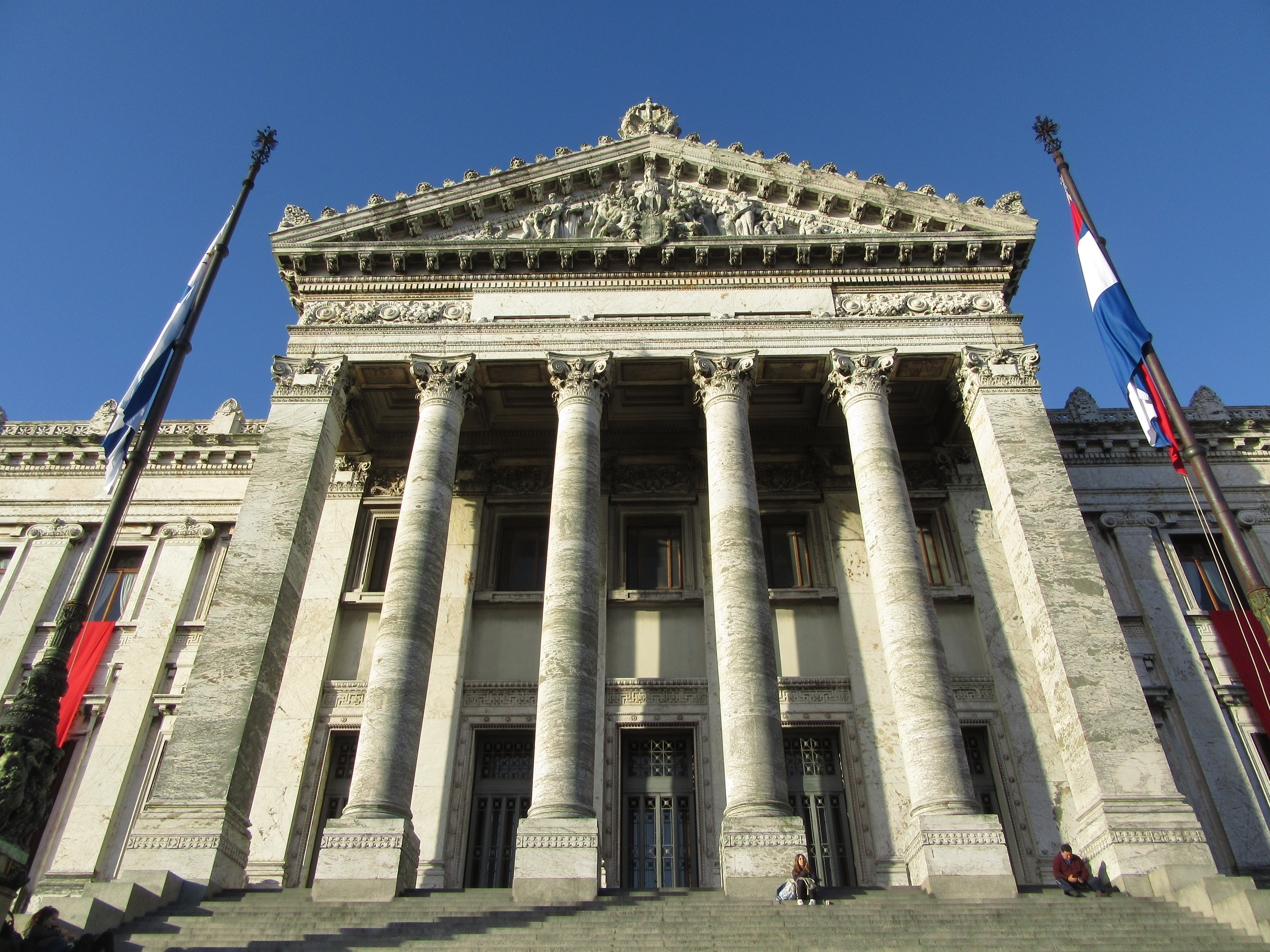 Montevideo